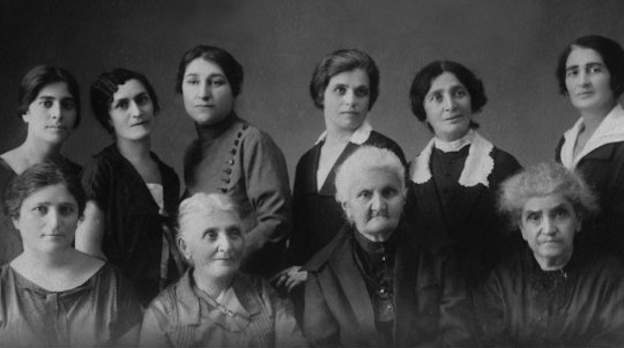 Front row (l-r): Khakhutashvili, Anna (Tskhvit) (1886-1960) Tumanishvili-Tsereteli, Anastasia daughter of Mikhail (1849-1932) Gabashvili, Ekaterine daughter of Revaz (1851-1938) Melikishvili-Meskhi, Ekaterine (Keke) (1854-1928) Back row: Gviniashvili, Anna (1904-1981) Aleksidze-Tkemaladze, Mariam (Marijani) (1890-1978) Akhvlediani, Daria (1873-1941) Mgeladze-Gigineishvili, Sappho (1894-1936) Tkeshelashvili, Nino (1874-1956) Megrelidze, Lydia (Watching) (1883-1968)